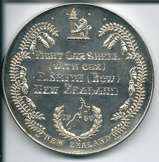 British Empire Games 1950 - E Smith Silver Medal